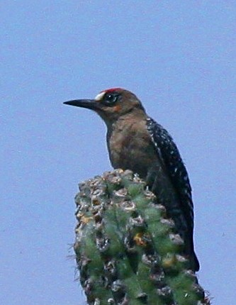 Gray-breasted Woodpecker Melanerpes hypopolius. A cropped, brightened and slightly sharpened version of Image:Gray-breasted Woodpecker.jpg